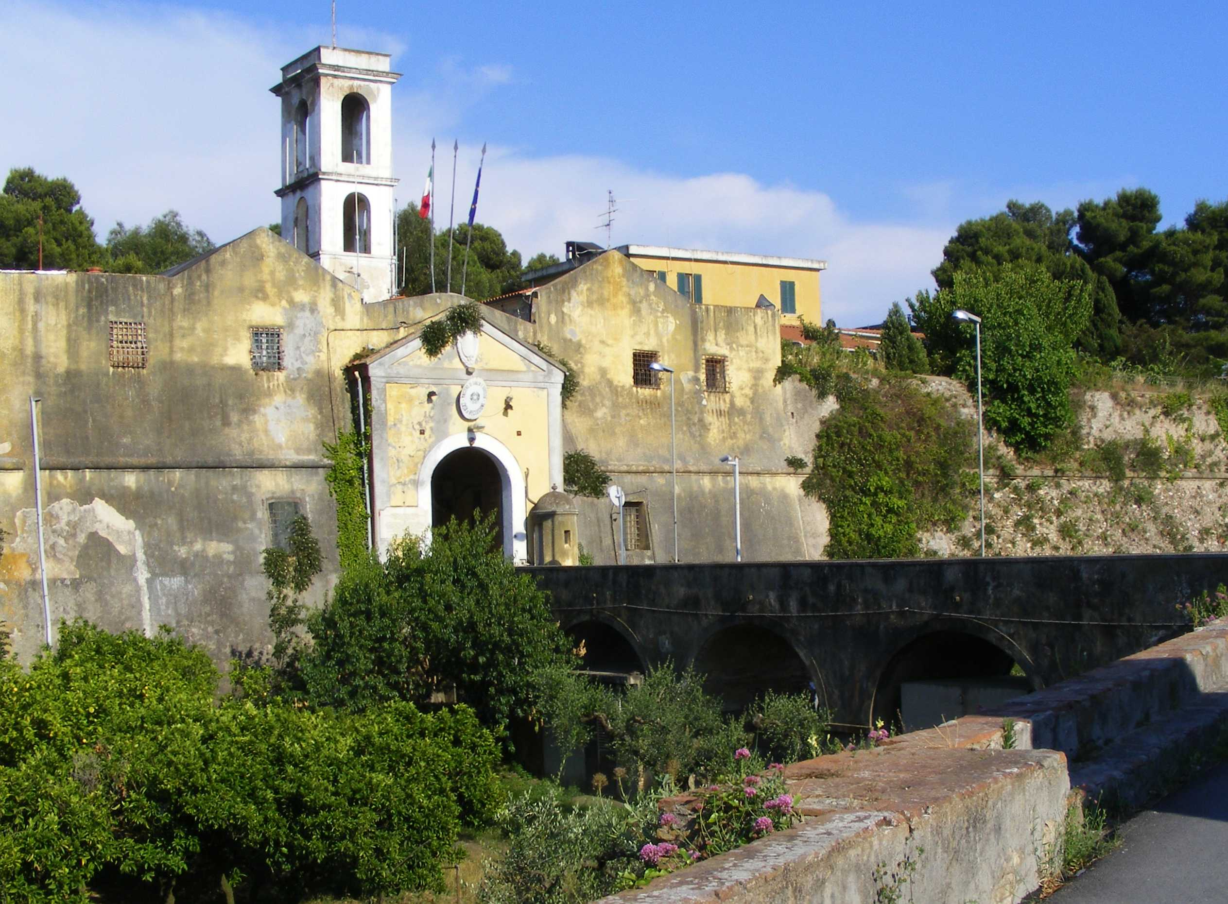 Longone fort (Porto Azzurro, LI, Italy): entrance gate